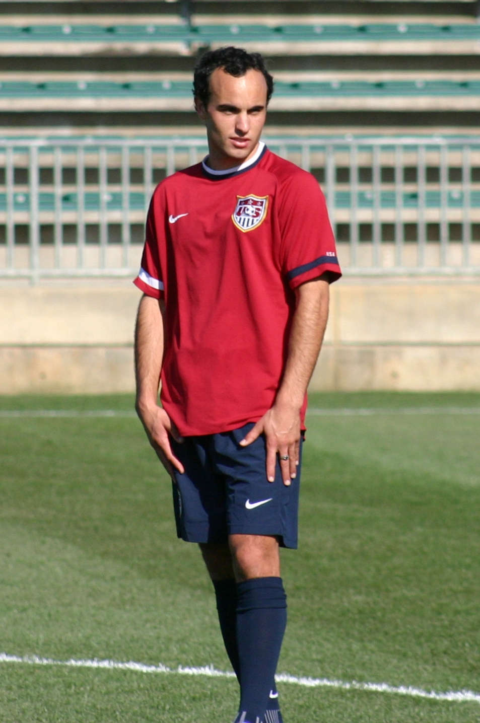 Landon Donovan, during USMNT practice